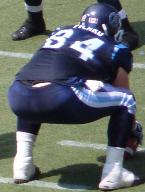 Toronto Argonauts quarterback Kerry Joseph prepares to take the snap from centre Dominic Picard with running backs Jarrett Payton and Jamal Robertson in motion.